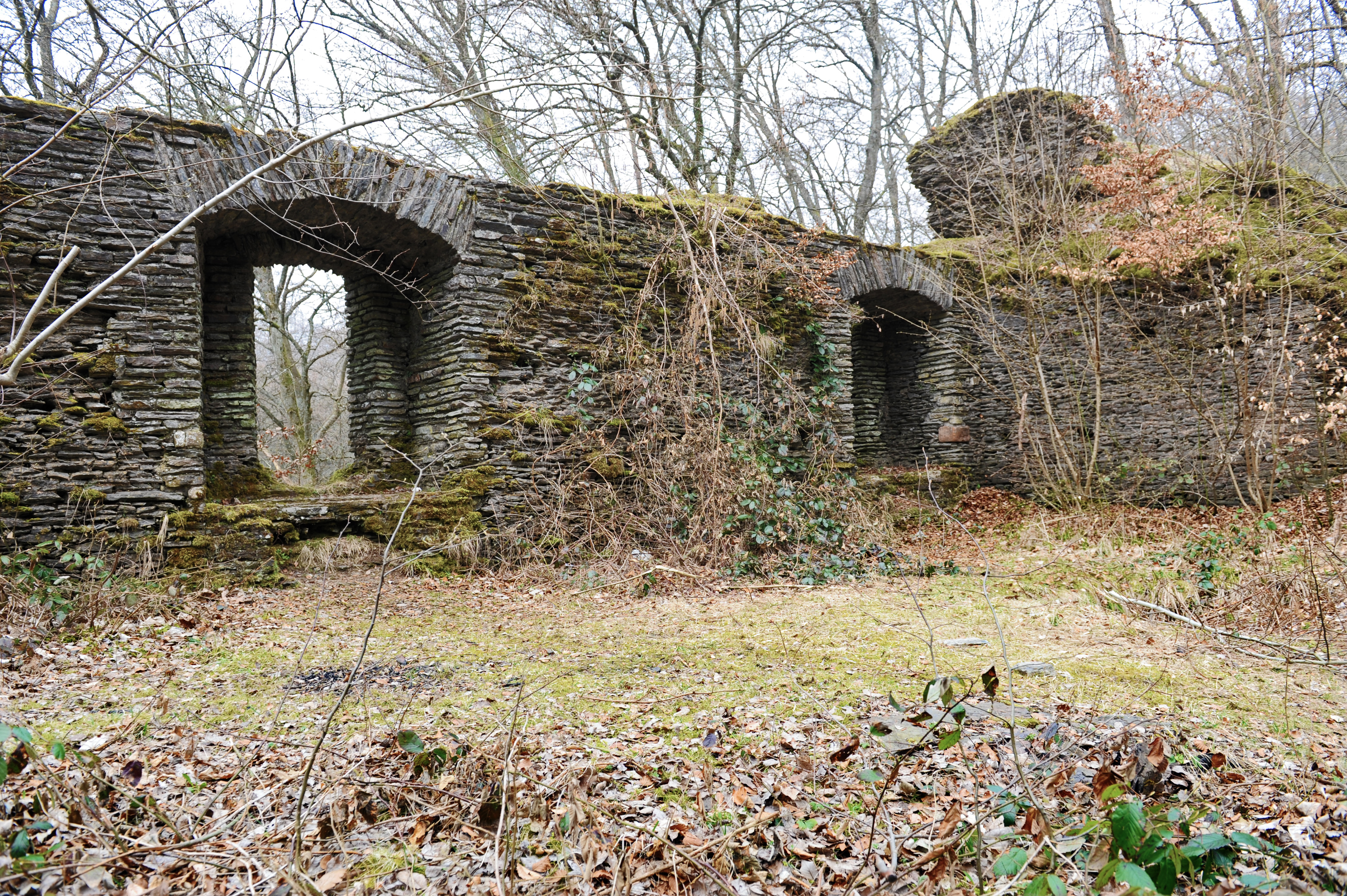 Schuerel castle near Eschette in Luxembourg